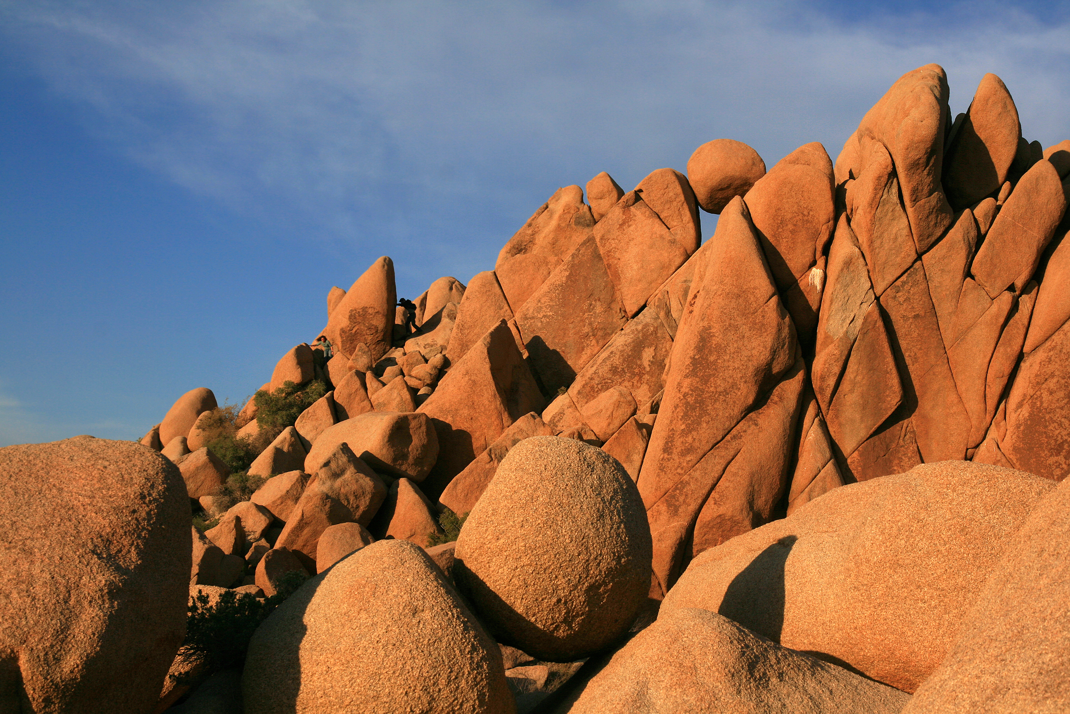 Rock formation in in Joshua Tree National Park, Southern California. The rocks that look as balls are called giant marbles.